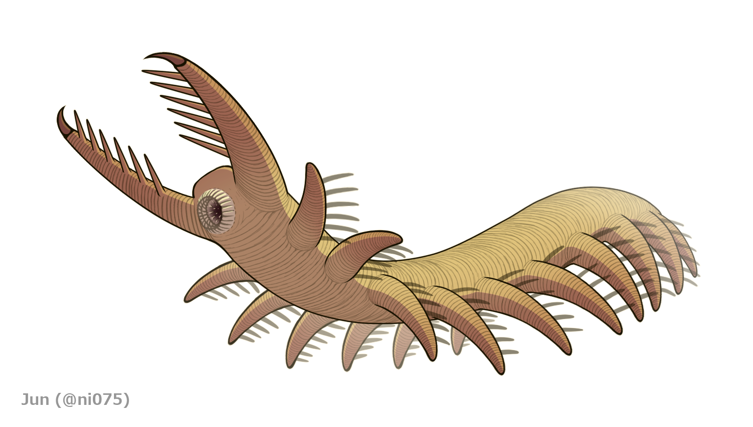 Reconstruction of Megadictyon cf. haikouensis, a cambrian siberiid lobopodian. Note the posterior trunk region is unknown and the number of limb appendicules is conjectural.